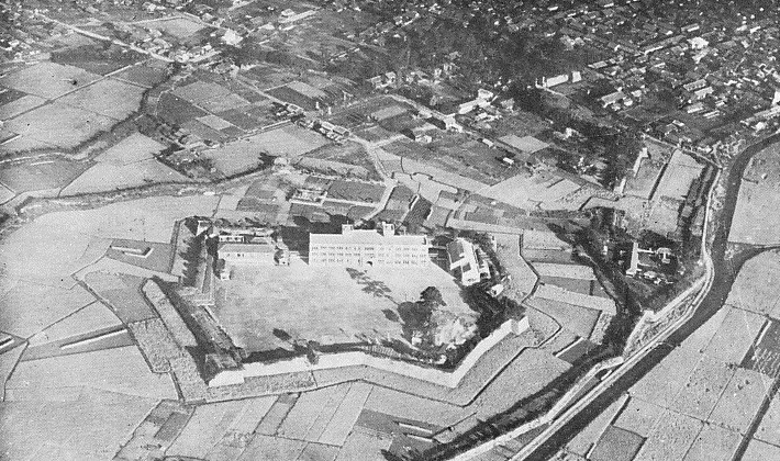 Ako Castle in 1930s